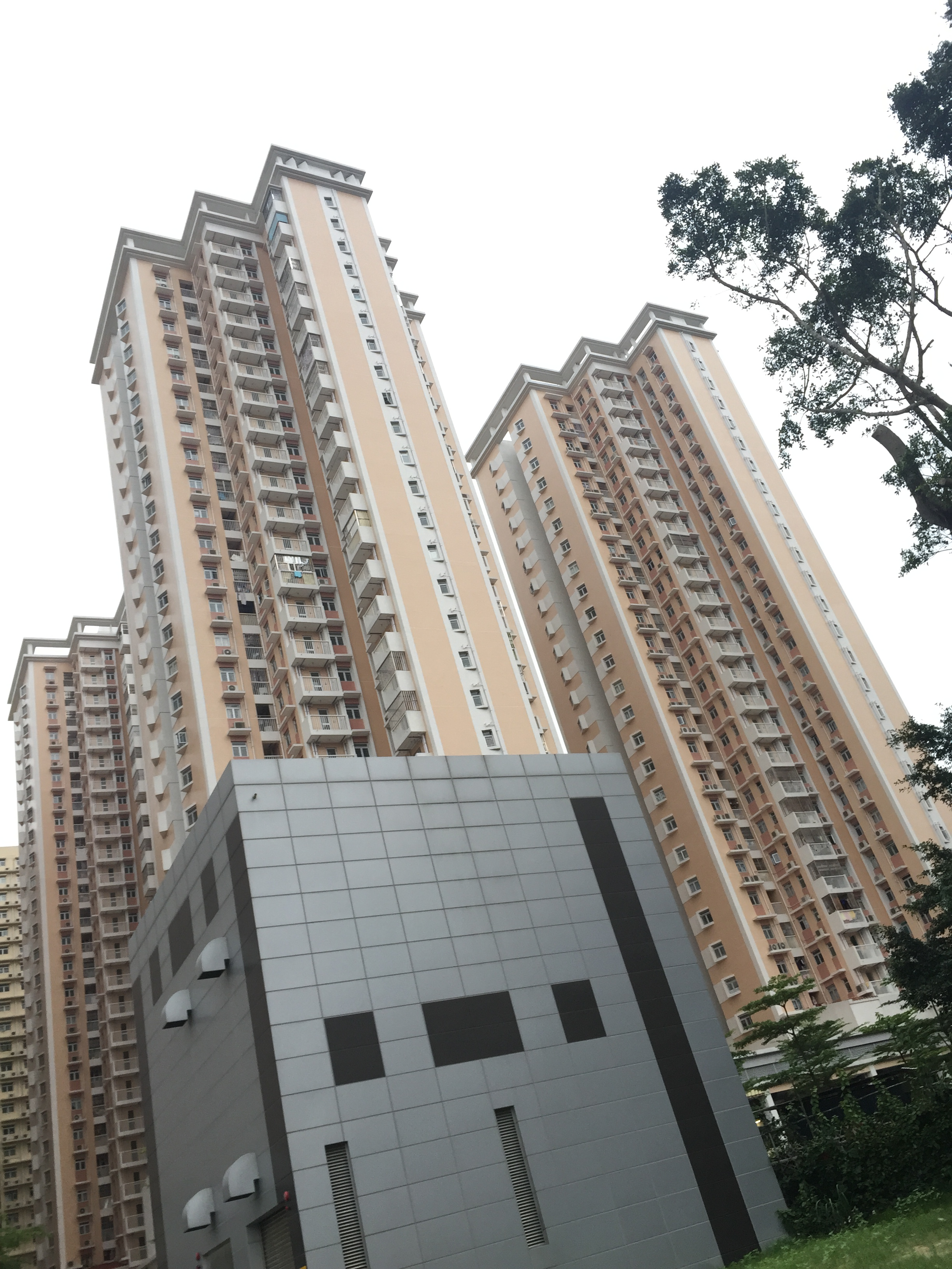 Edificio Koi Nga